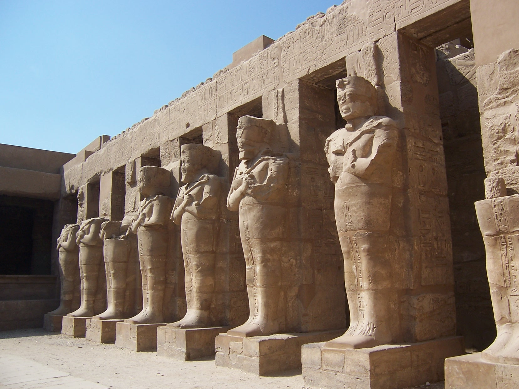 Karnak Temple Complex at Luxor, Egypt